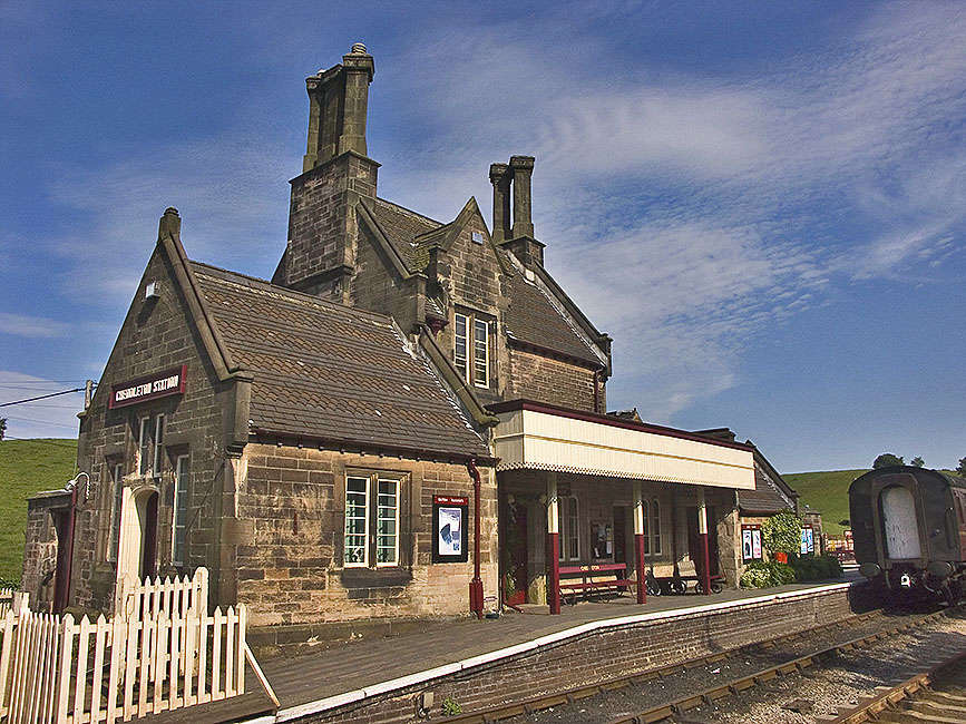 Cheddleton station under preservation